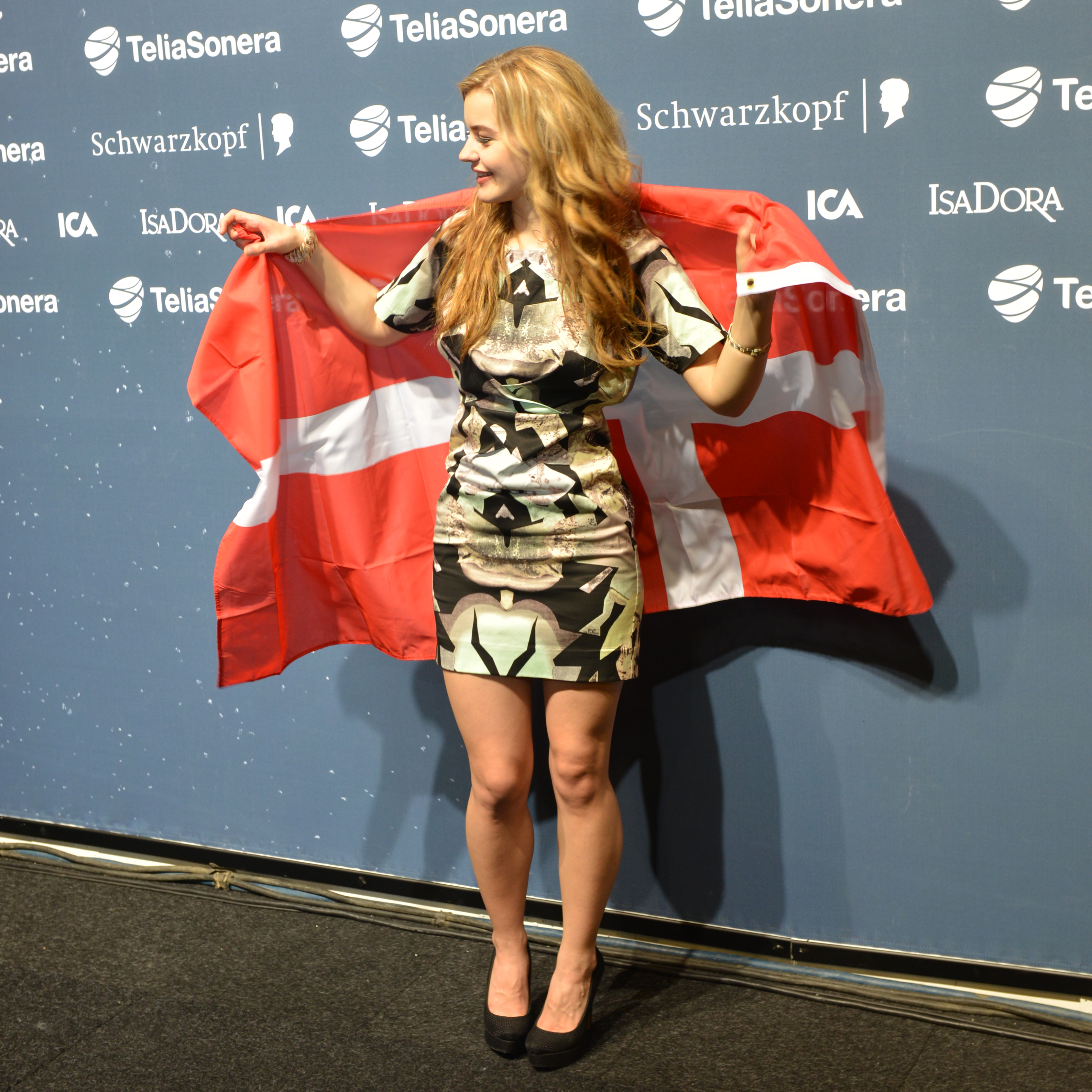 Emmelie de Forest at the winners press conference, right after winning the Eurovision Song Contest 2013 Malmö. (Help translate this text)